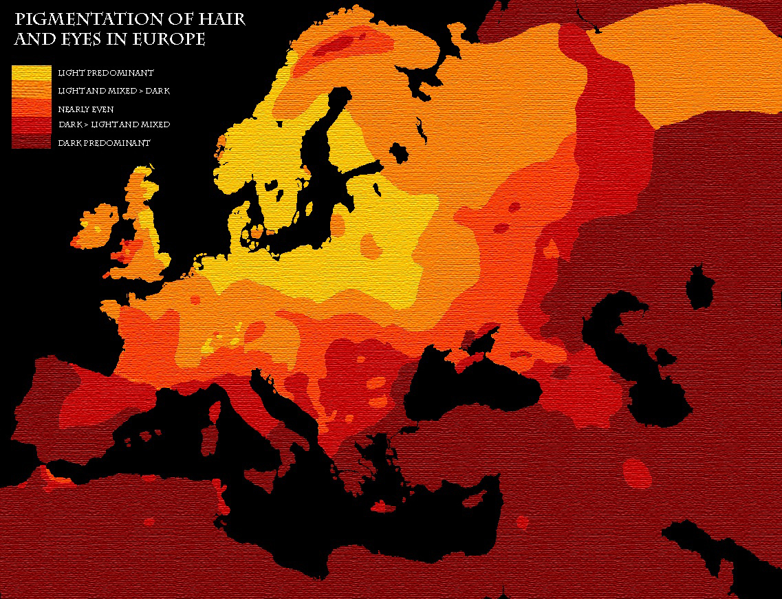 Map of hair and eye pigmentation in Europe